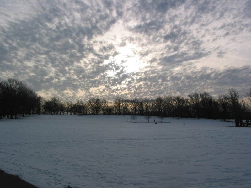 Taken 16 Feb 2004 with a Canon Powershot G4. Larger version available on request.